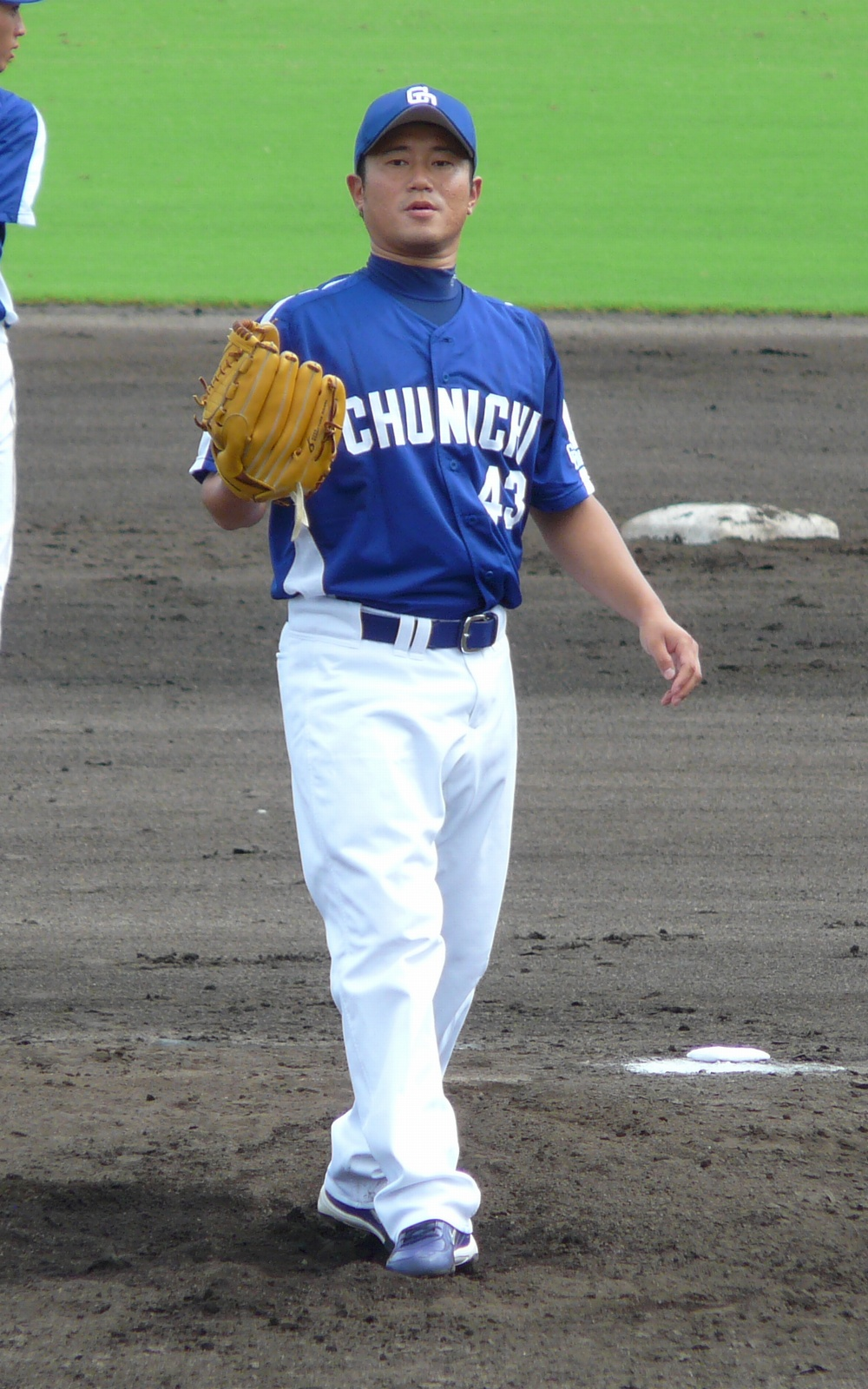 Takashi Ogasawara, pitcher of the Chunichi Dragons, at Hanshin Naruohama Baseball Ground.